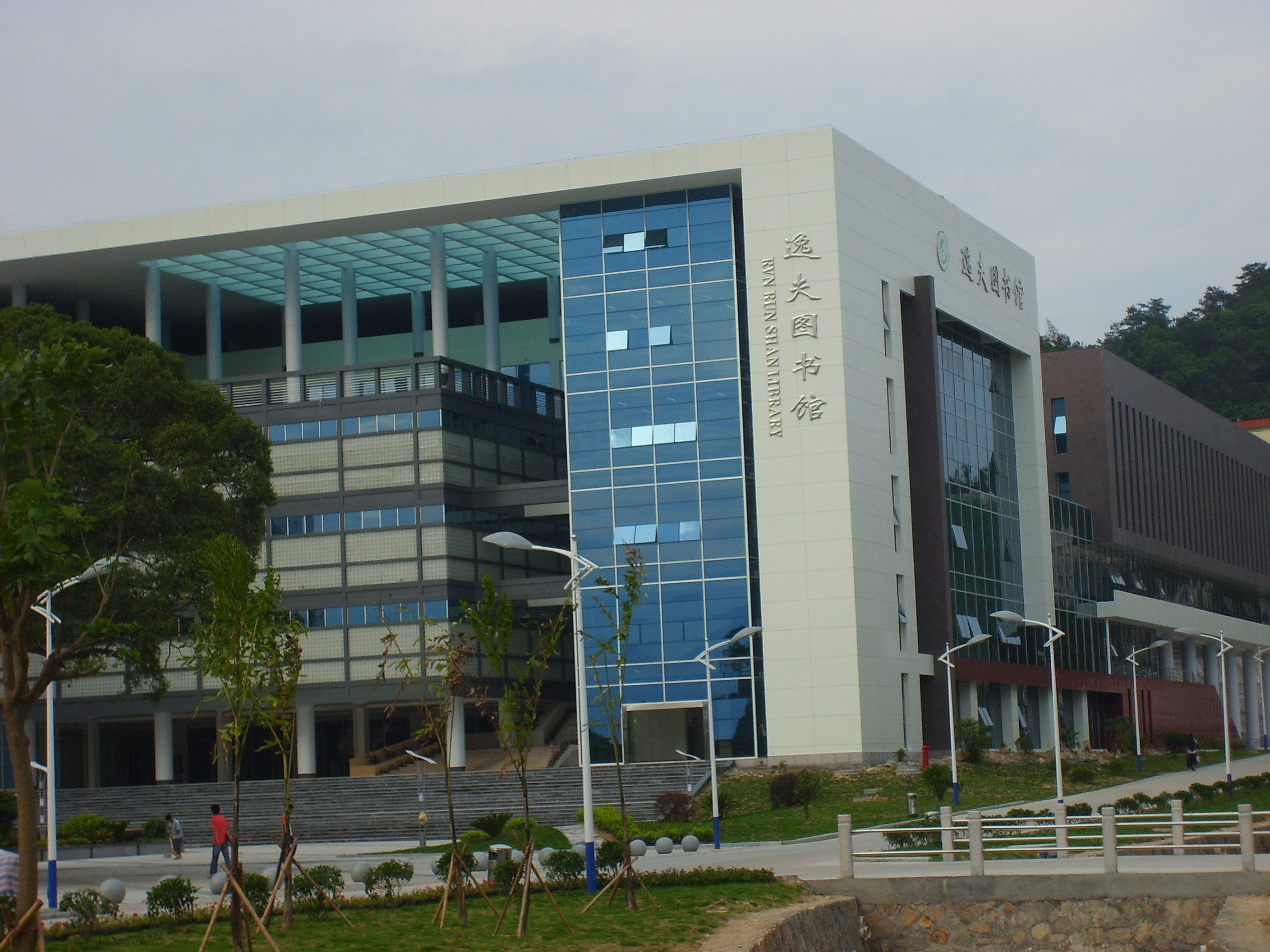 Yifu Library of Fujian Agriculture and Forestry University